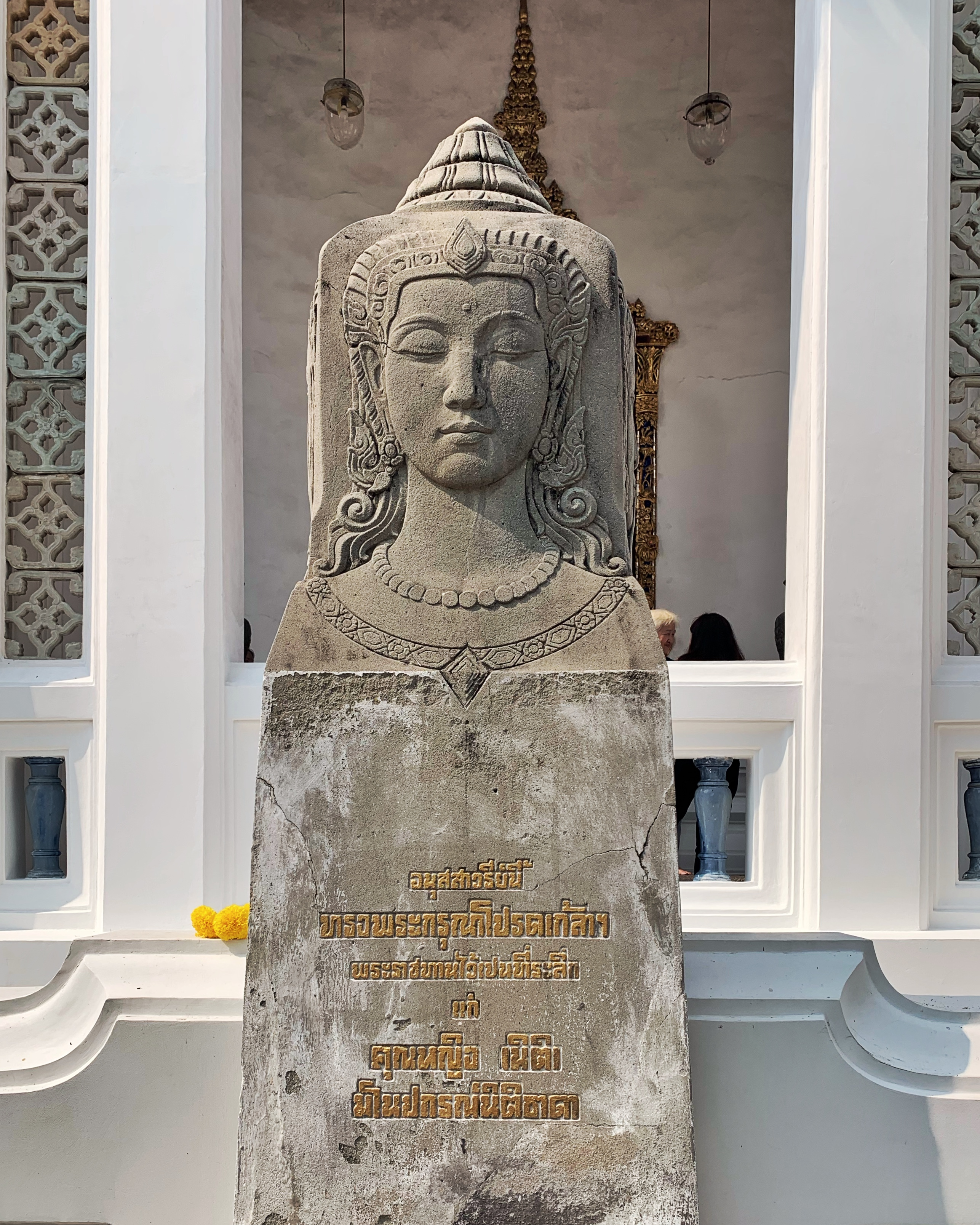 Phraya Manopakon Nitithada Memoriam Stone at Wat Pathum Wanaram, Bangkok